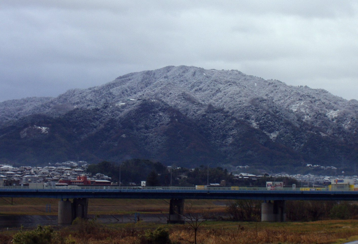 Ryozen seen from the NNE.